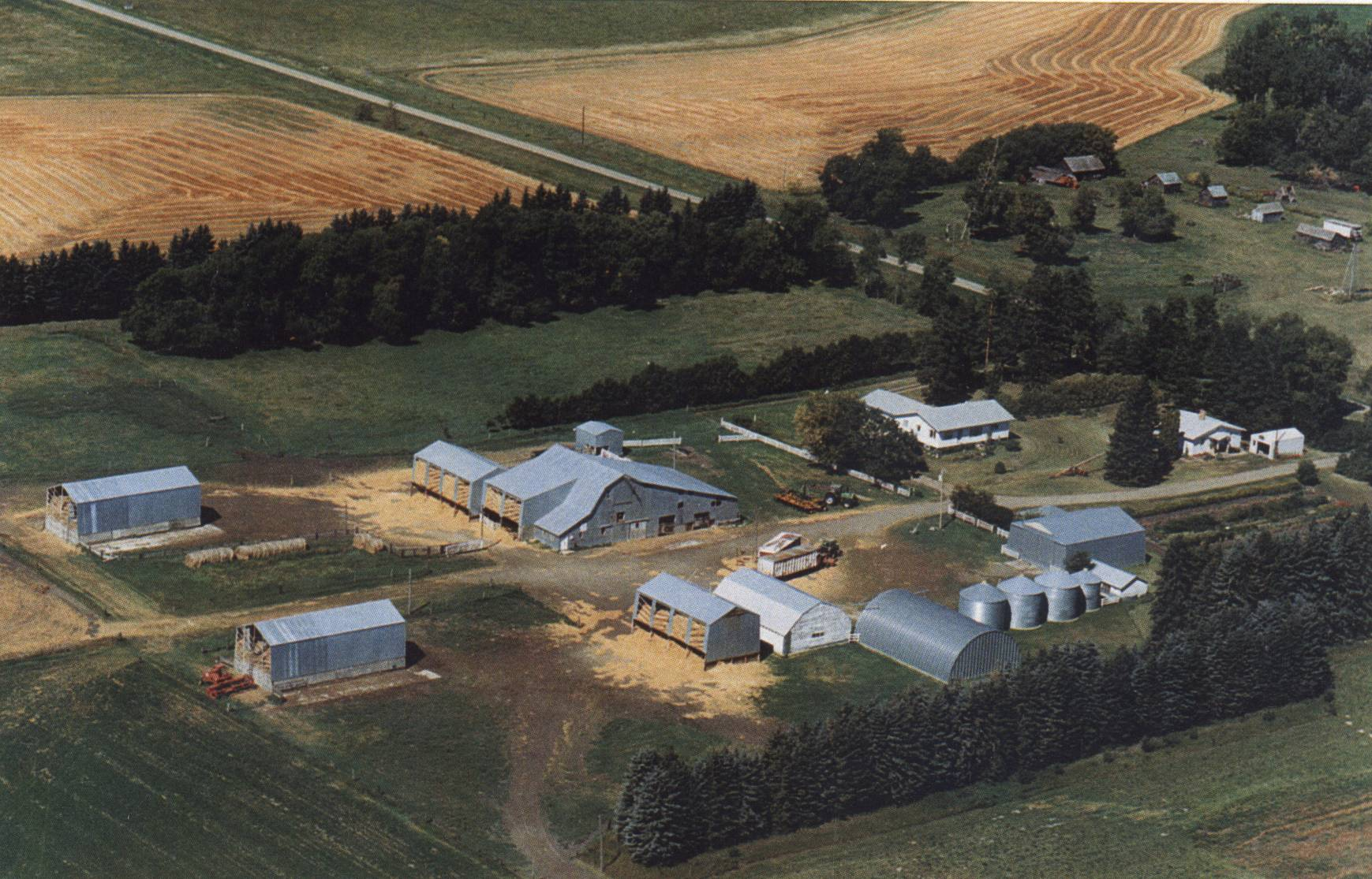 A farm in the rural municipality of Sifton.